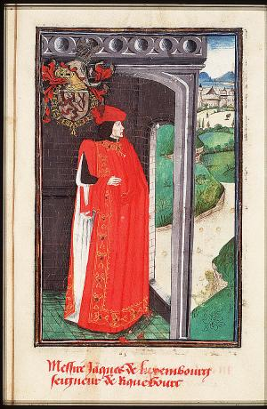 Statuts, Ordonnances et Armorial de l'Ordre de la Toison d'Or (Statutes, Ordonnances and armorial of the Order of the Golden Fleece) Place of origin, date: Southern Netherlands; 1473. Added sections: Southern Netherlands; 1478 or shortly after and 1491 or shortly after Material: Vellum, ff. 86, 249x187 (167x106) mm, 23 lines, littera cursiva (lettre bourguignonne). French. Binding: 18th-century brown leather Decoration: 1 full-page miniature (170x115 mm) with border decoration; 92 miniatures (185/155x120/100 mm); 1 historiated initial (80x90 mm) with border decoration; decorated initials with border decoration (ff., Added section: miniatures ; 4 drawings for miniatures (not finished) Provenance: Presented in 1473 by Gilles Gobet, King of Arms of the Order of the Golden Fleece, to Charles the Bold, Duke of Burgundy and the other Knights during the Chapter of the Order held at Valenciennes; Treasure of the Golden Fleece, Brussls; taken away by the Treasurer C.-F. Humyn (d. 1735) or his daughter C.Ch. de Corte; by legacy to her daughter M.-L. de Corte, wife of Ph.-E. de Poederlé; purchased in 1781 at the Poederlé sale by G.-J- Gérard of Brussels; acquired in 1832 as part of the Gérard collection (no. A 27)